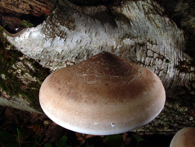 Piptoporus betulinus, Birch bracket, also called razor strop